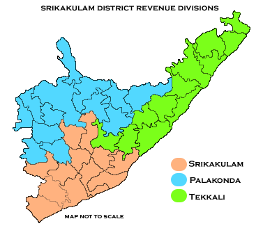 Revenue divisions map of Srikakulam district